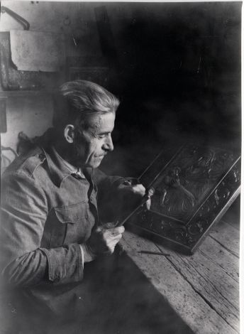 Julio Pascual trabajando en su taller en los años 40. Fotografía de Rodríguez conservada en el Archivo Histórico Provincial de Toledo.